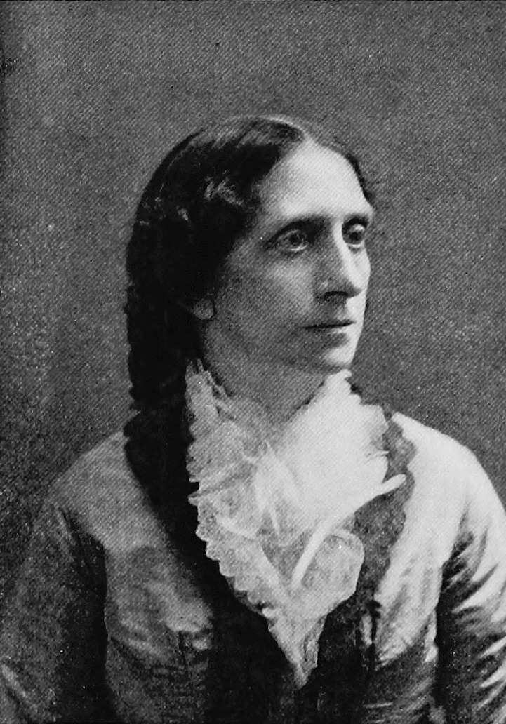 Angeline Stickney from An astronomer's wife; the biography of Angeline Hall